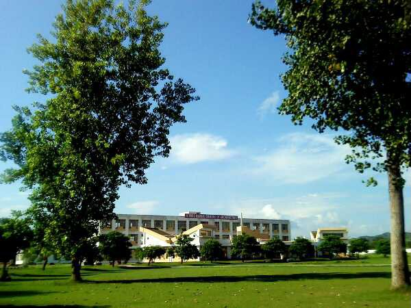 IGCA